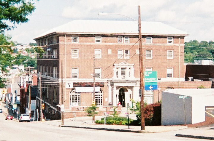 YMCA, 101 South Maple Avenue (at corner of East Pittsburgh Street), Greensburg, Pennsylvania. Built: 1912.